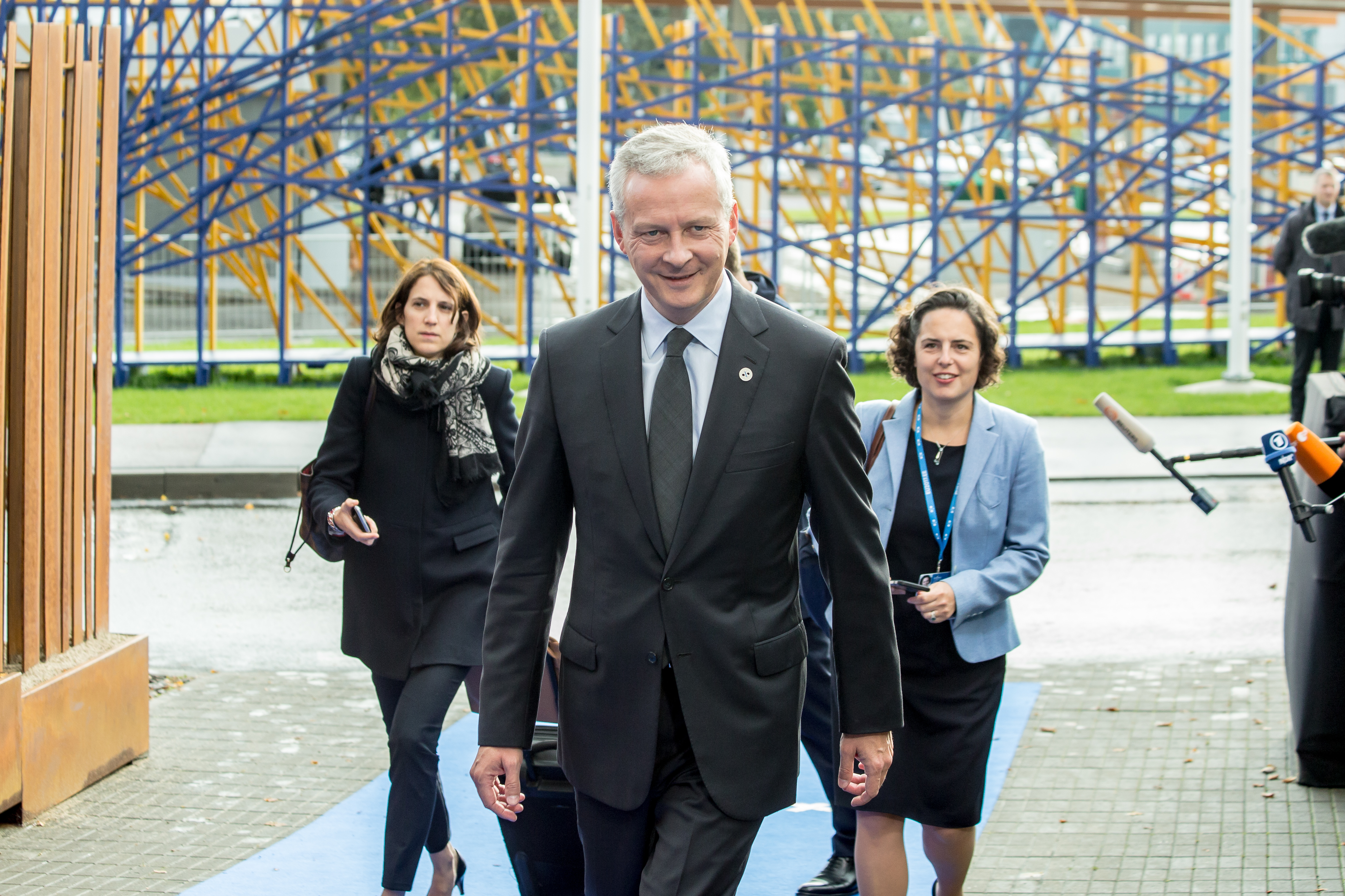 Bruno Le Maire, Minister, Ministry of Economy and Finance, France Photo: Aron Urb (EU2017EE)